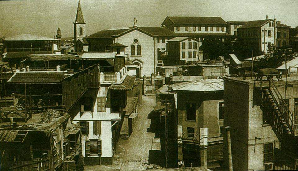 Adana St.Paul Church from the main street